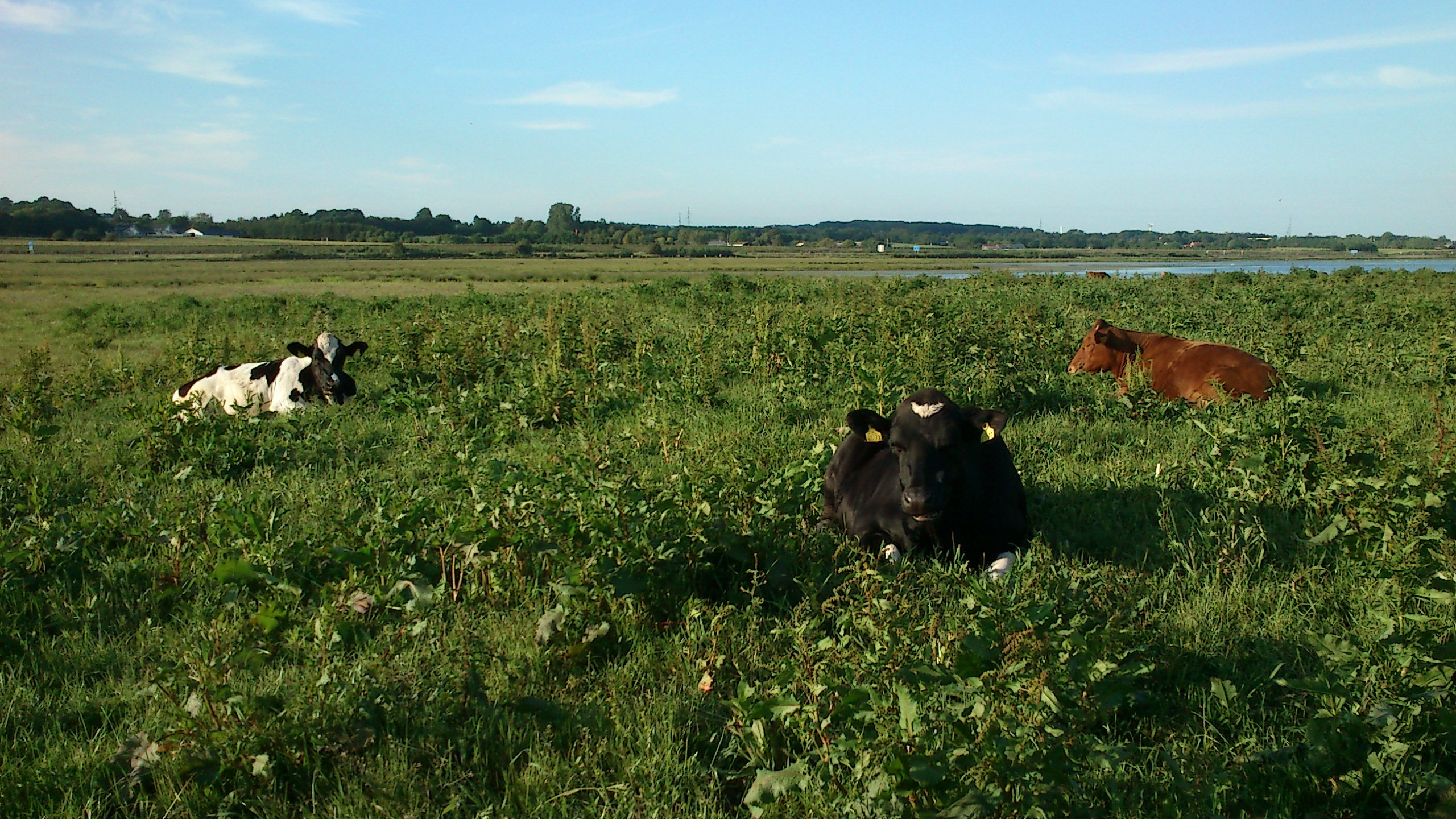 Egå Engsø